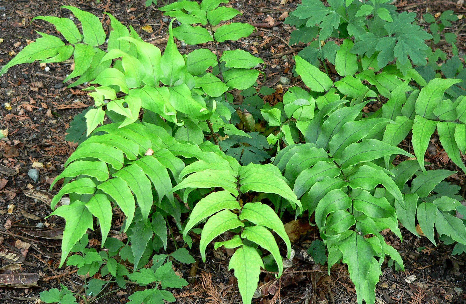 Photo of Cyrtomium falcatum at the VanDusen Botanical Garden in Vancouver